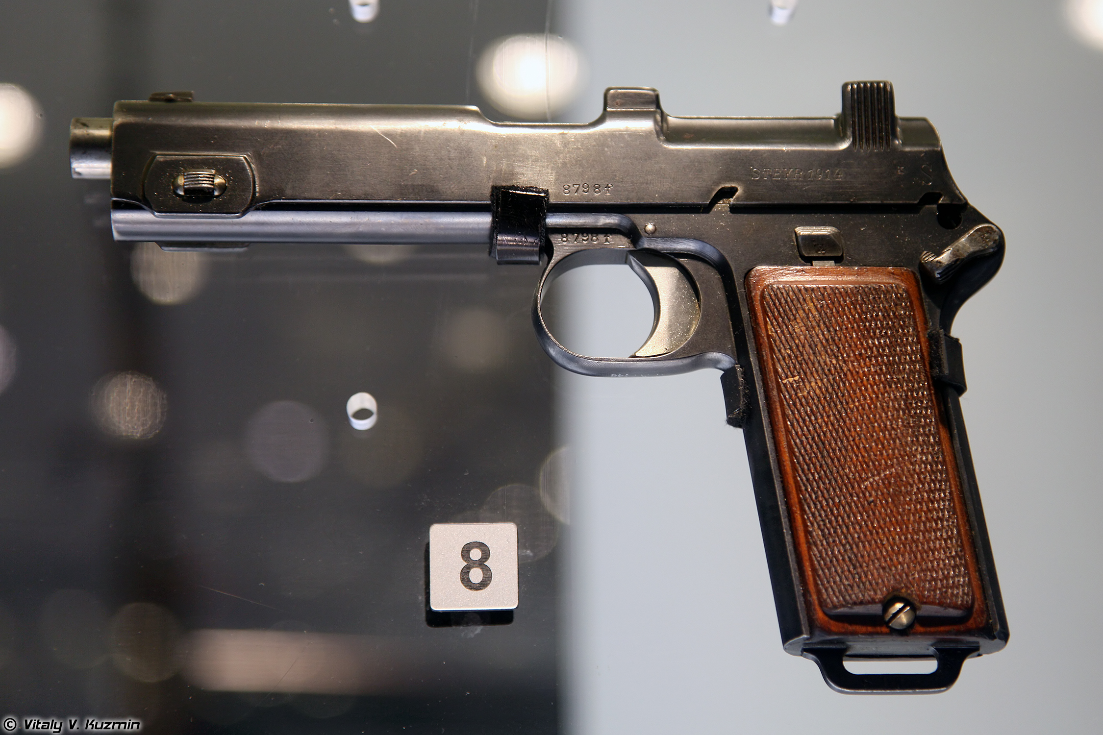 Steyr M1912